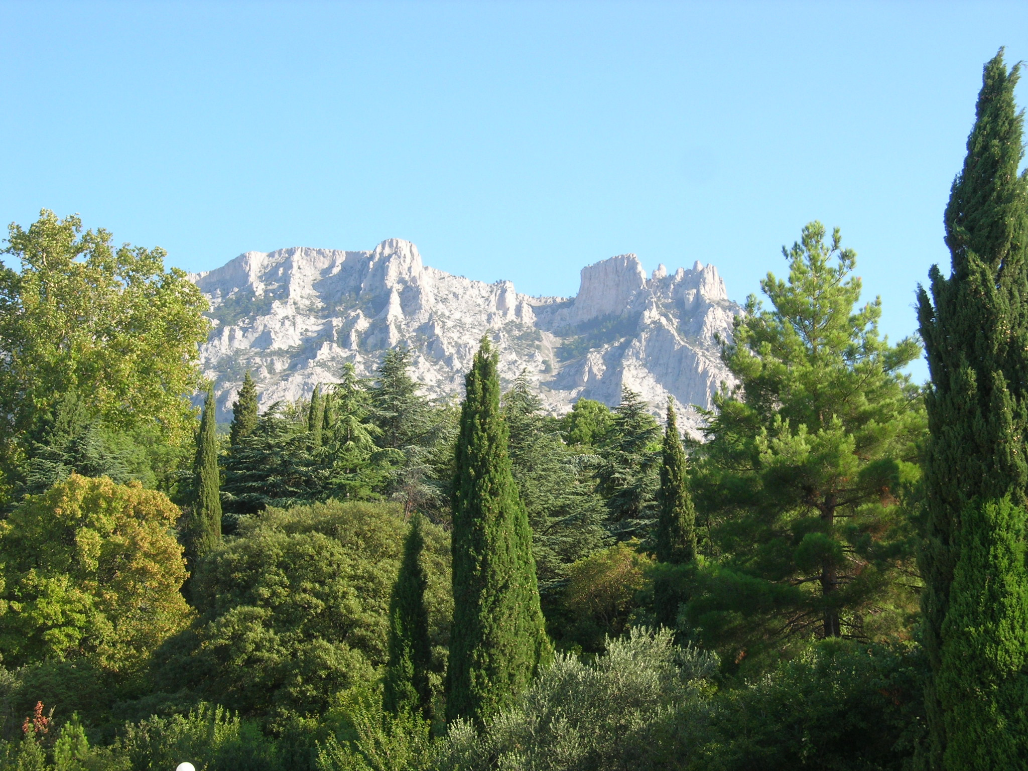 Mount Ai-Petri. View from Alupka